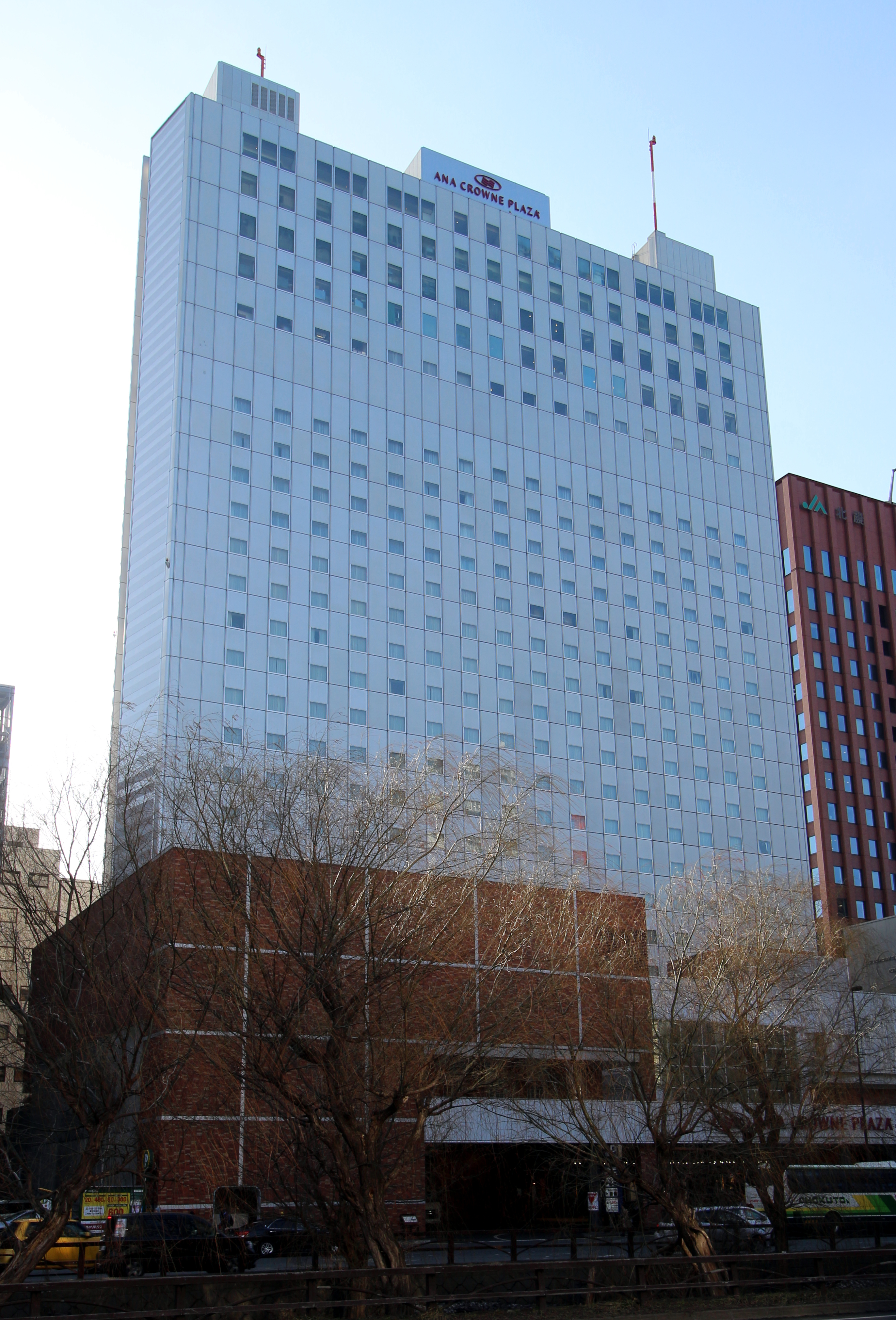 ANA Crowne Plaza Sapporo, April 2018.